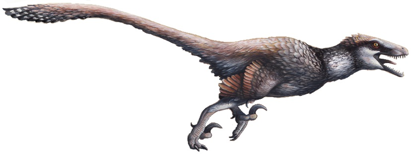 Dakotaraptor steini after DePalma et al 2015.